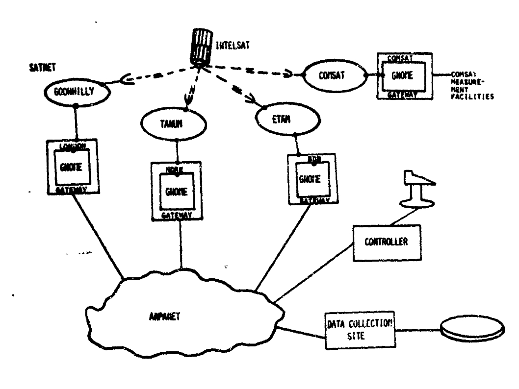 Diagram from the University College London ARPANET Project, Annual Report 1977, by Professor Peter T. Kirstein, April 1978. US Department of Defense Distribution Statement A - Approved for Public Release - Distribution Unlimited. This work is not protected by copyright, as it was published in the U.S. between 1924 and 1978 but without copyright notice.